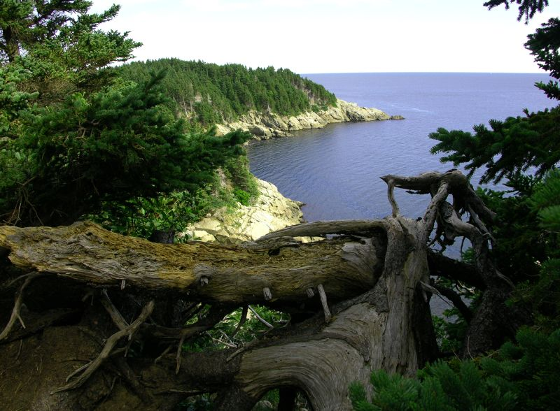 Cape Breton Island